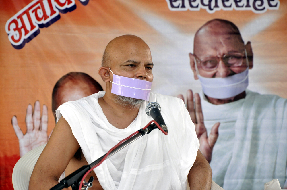 Acharya shri Mahashraman1